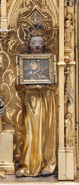 Detail of the The Cloisters Reliquary Shrine, a precious and especially complex container for relics, now in the The Cloisters, New York. It is made from translucent enamel, gilt-silver and paint, and dated to c 1325–50. The work is attributed to the French artist and goldsmith Jean de Touyl, about whom little is know, but who is associated with a small number of works with similar stylistic characteristics.